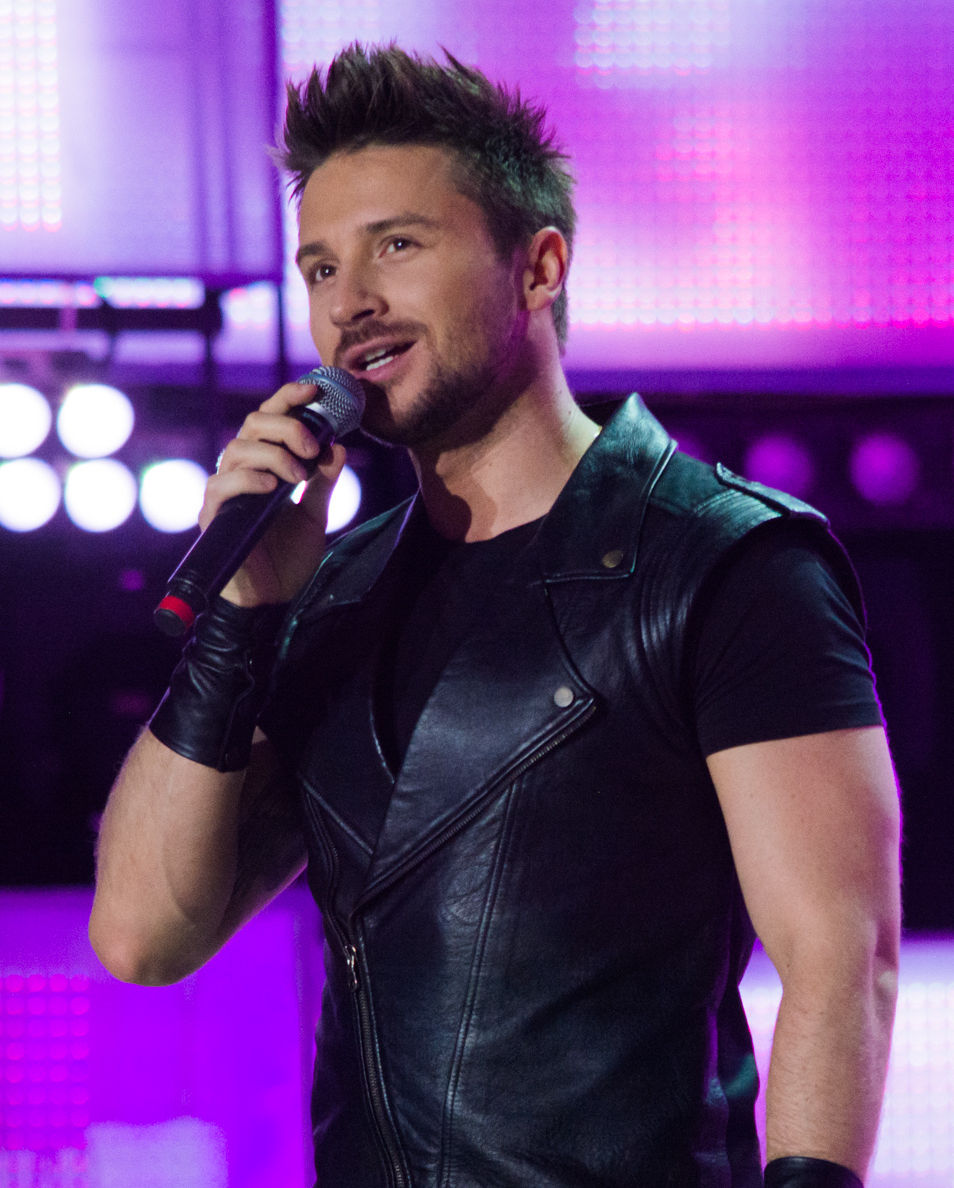 Sergey Lazarev at NWJ2015